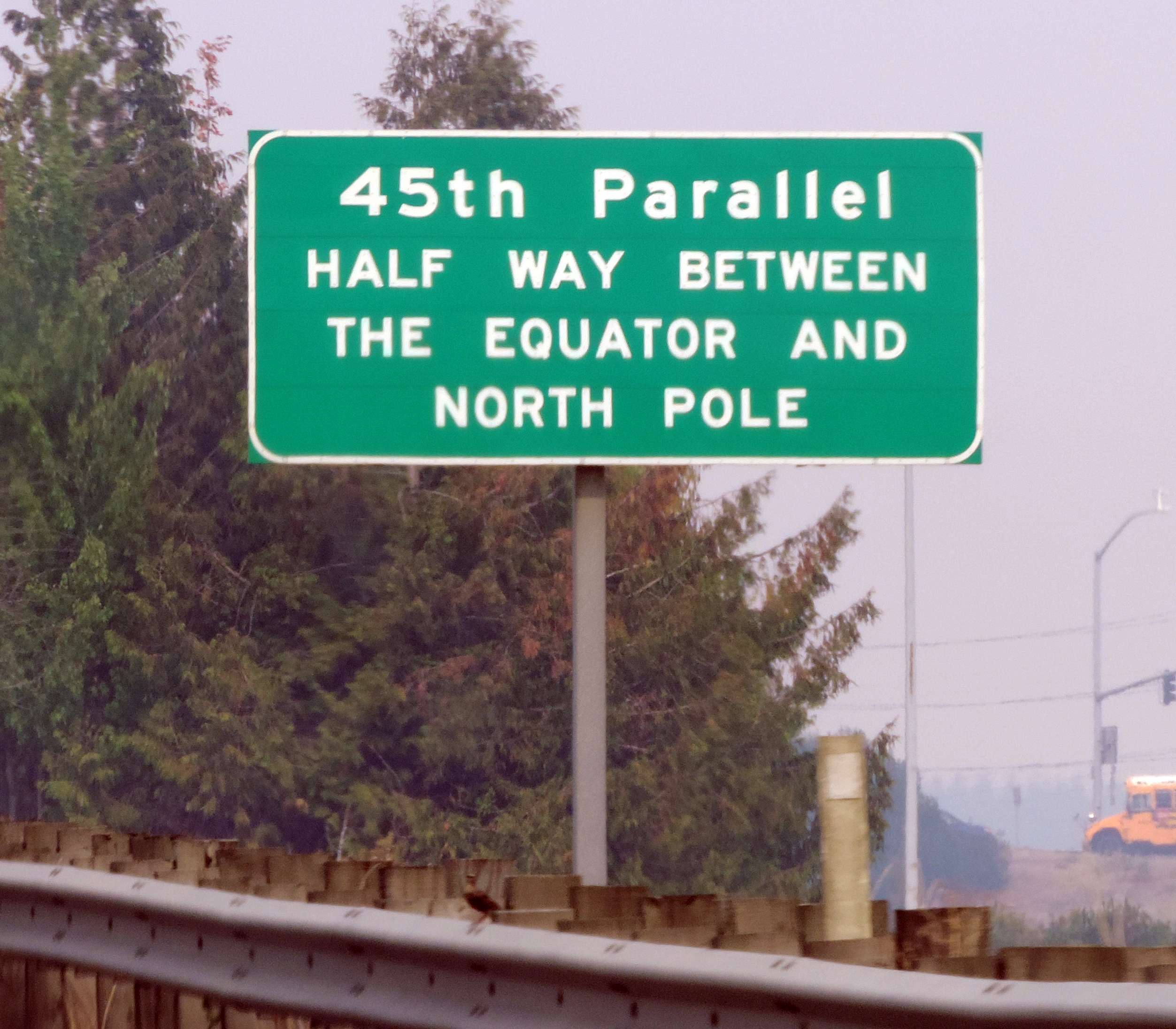 A 45th Parallel (north) sign near Keizer, OR, seen on Interstate 5 northbound immediately following the off-ramp for Exit 260. Photo taken on September 15, 2014.